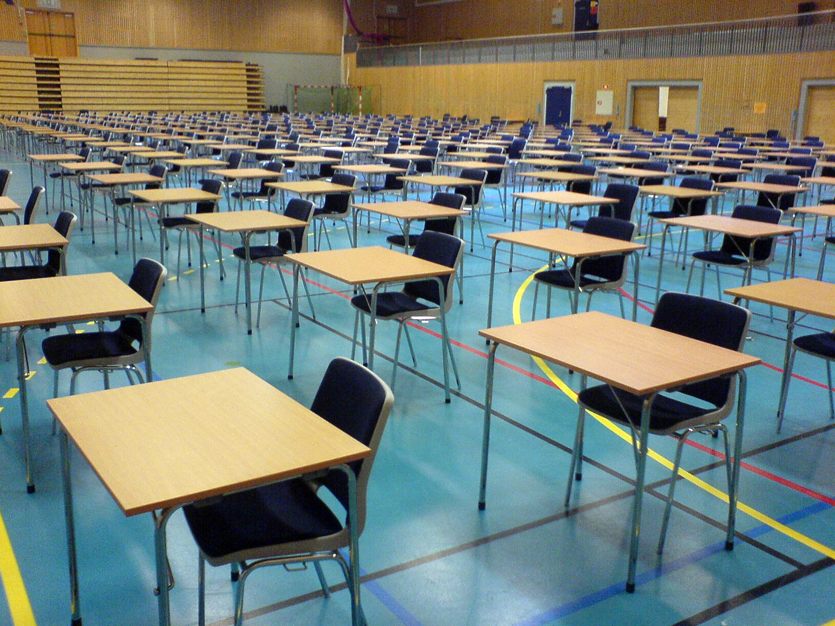 Tables and chairs ready for students's final exam at Norwegian University of Science and Technology in Trondheim, Norway